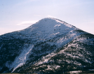 Algonquin Peak taken from Wright. Visit for more pictures